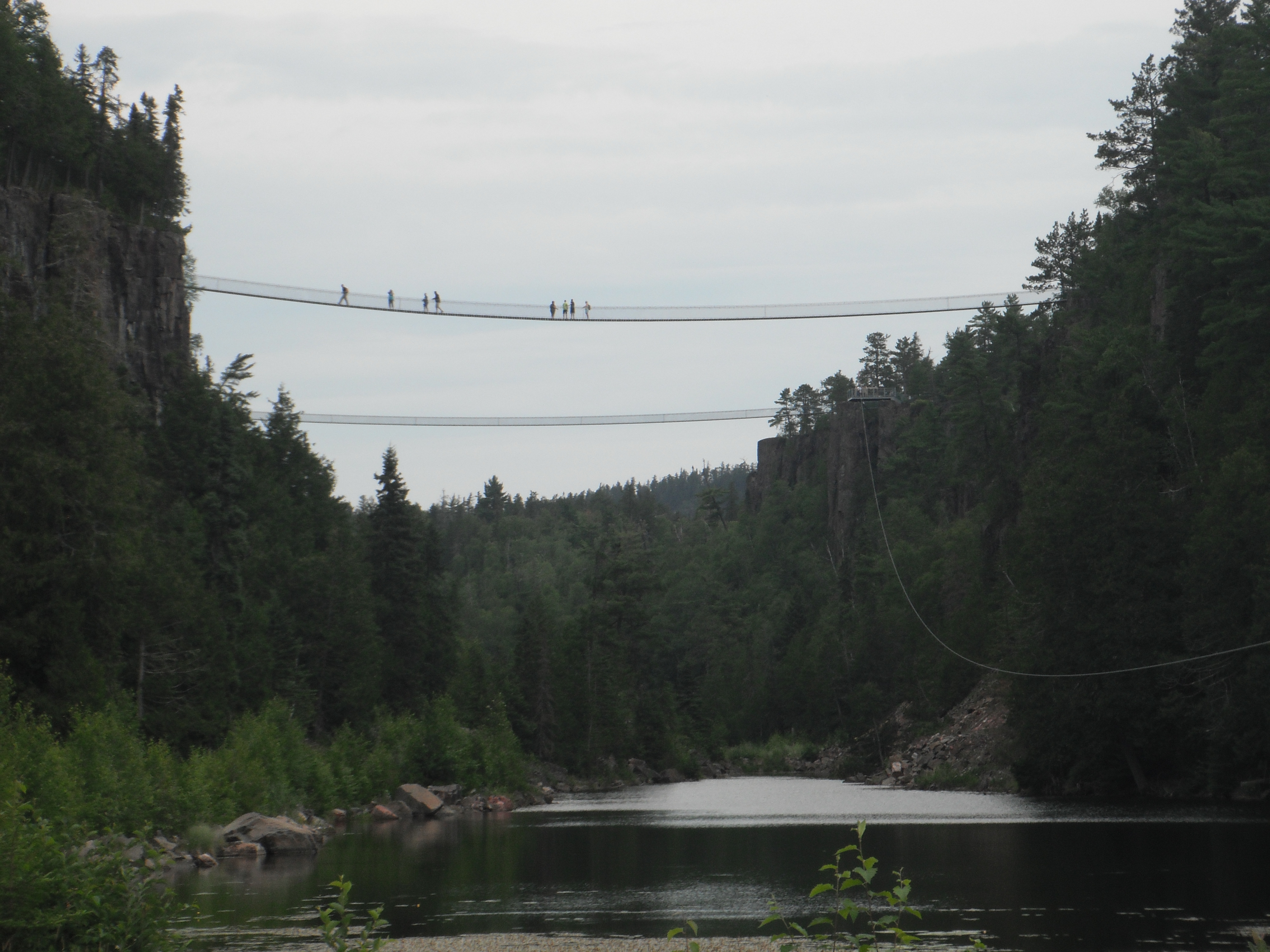 The two suspension bridges at Eagle Canyon in northwestern Ontario, Canada, seen from the trail below. A zipline cable can be seen descending from the right end of the far bridge.